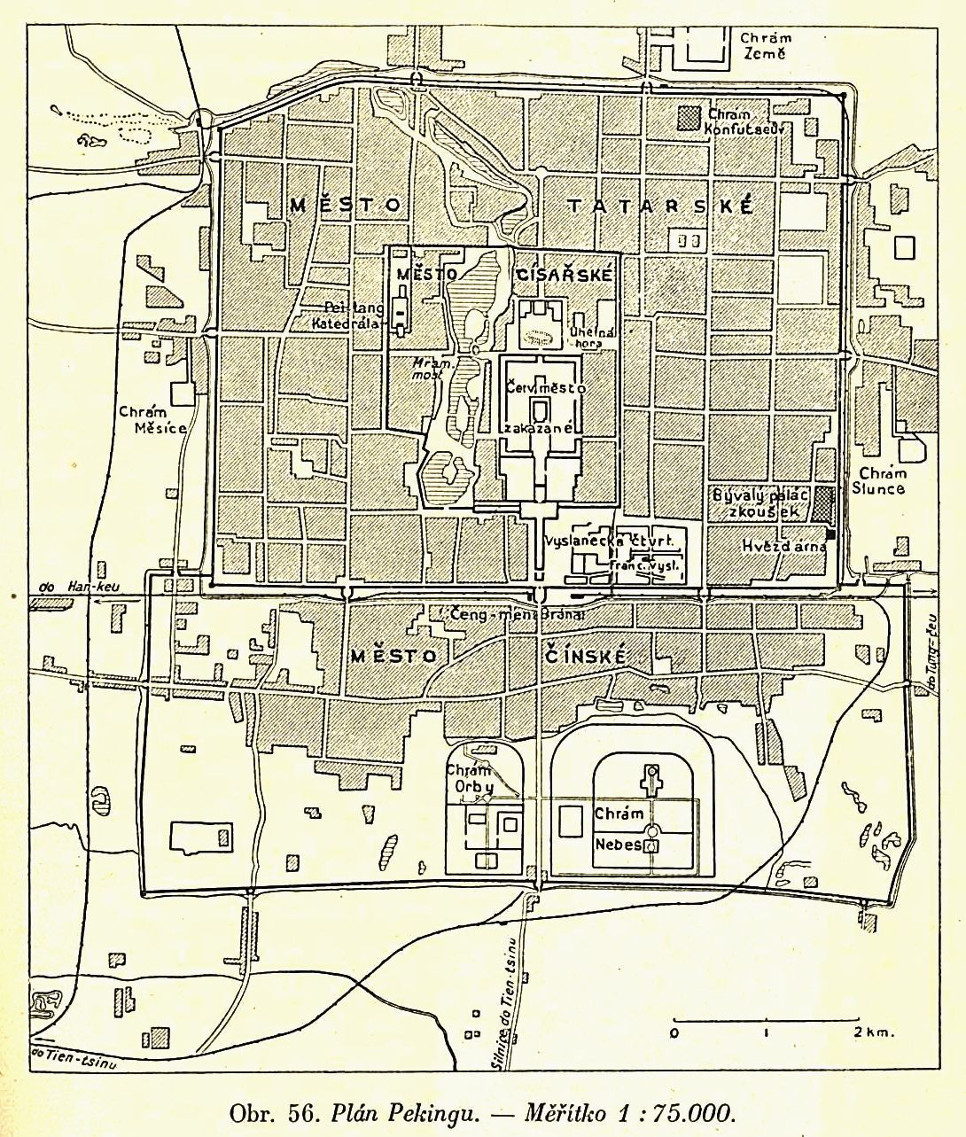 Map of Beijing after the First World War. The descriptions are in Czech.